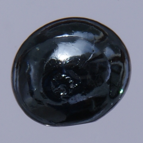 Pure Osmium bead